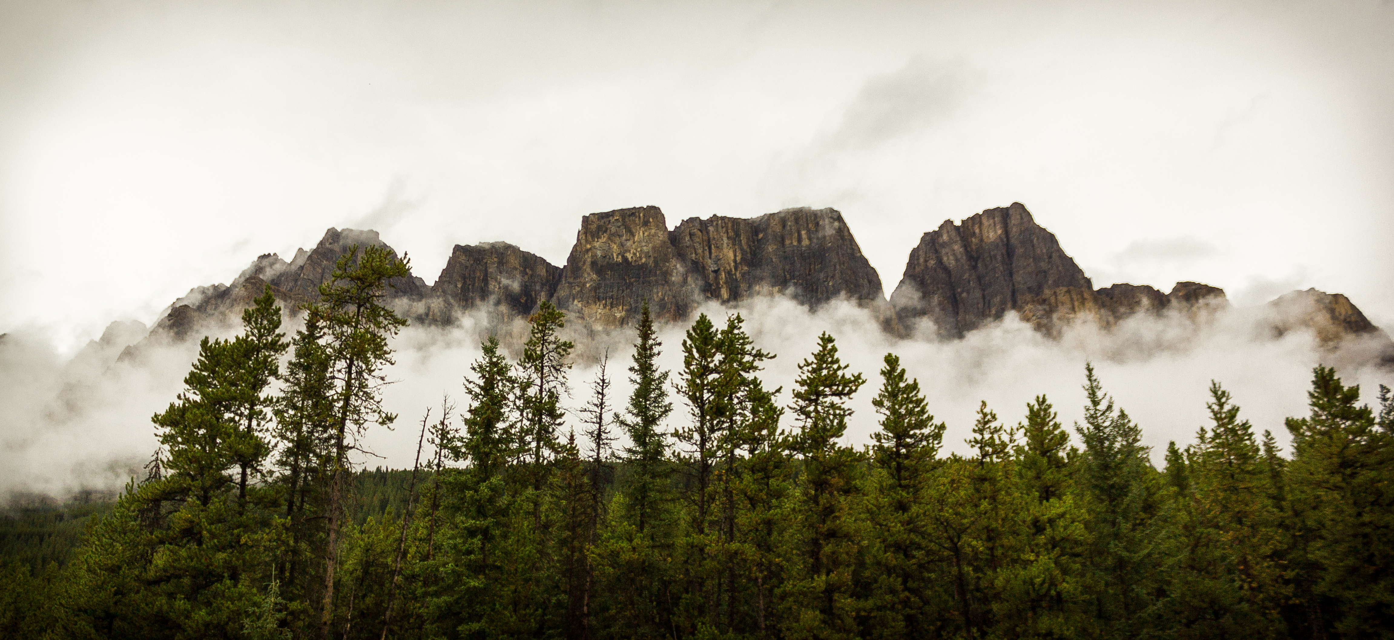 near Banff, Canada.